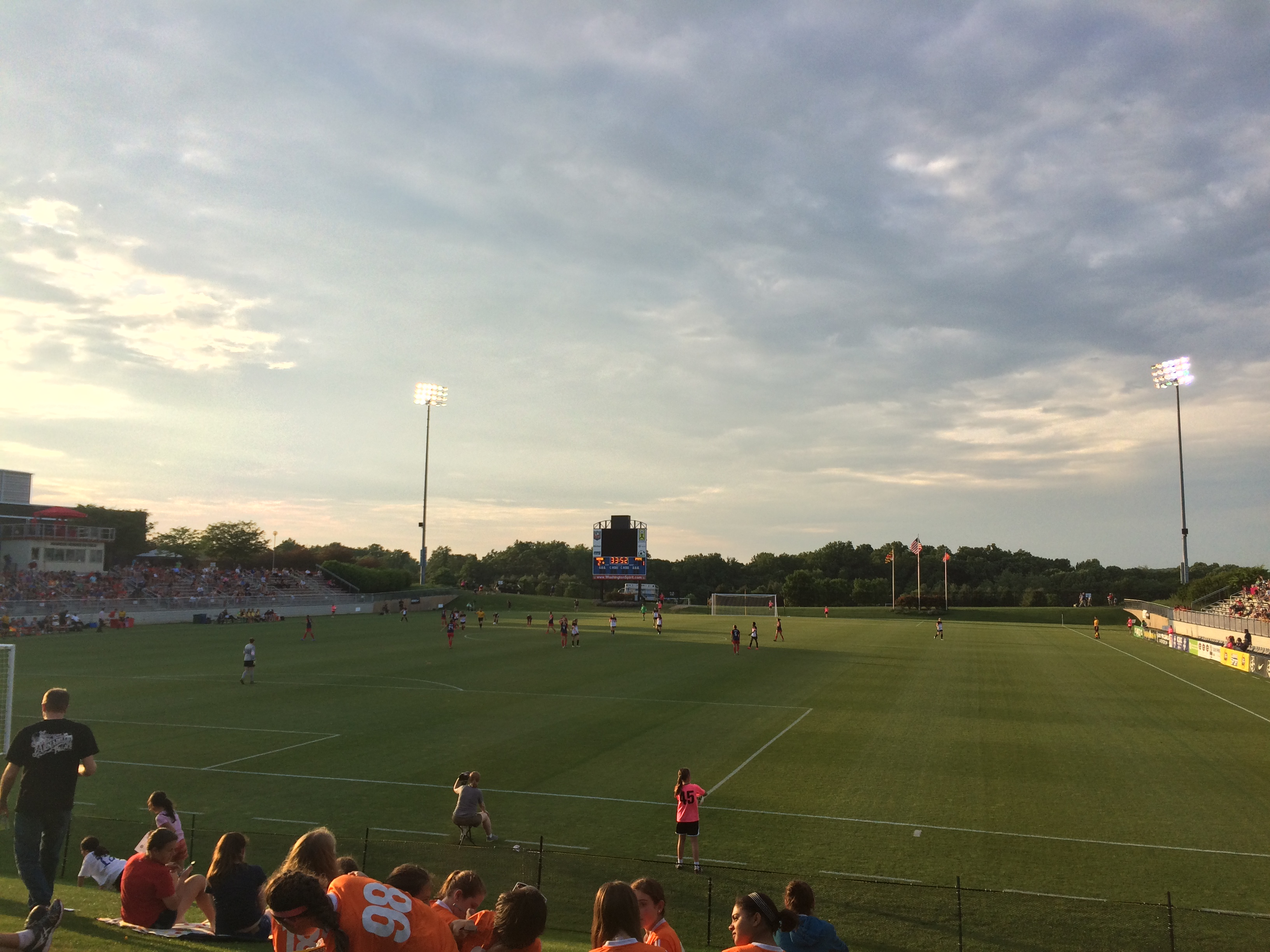 Washington Spirit vs Portland Thorns, NWSL 2015 season. Main grandstand to the left.